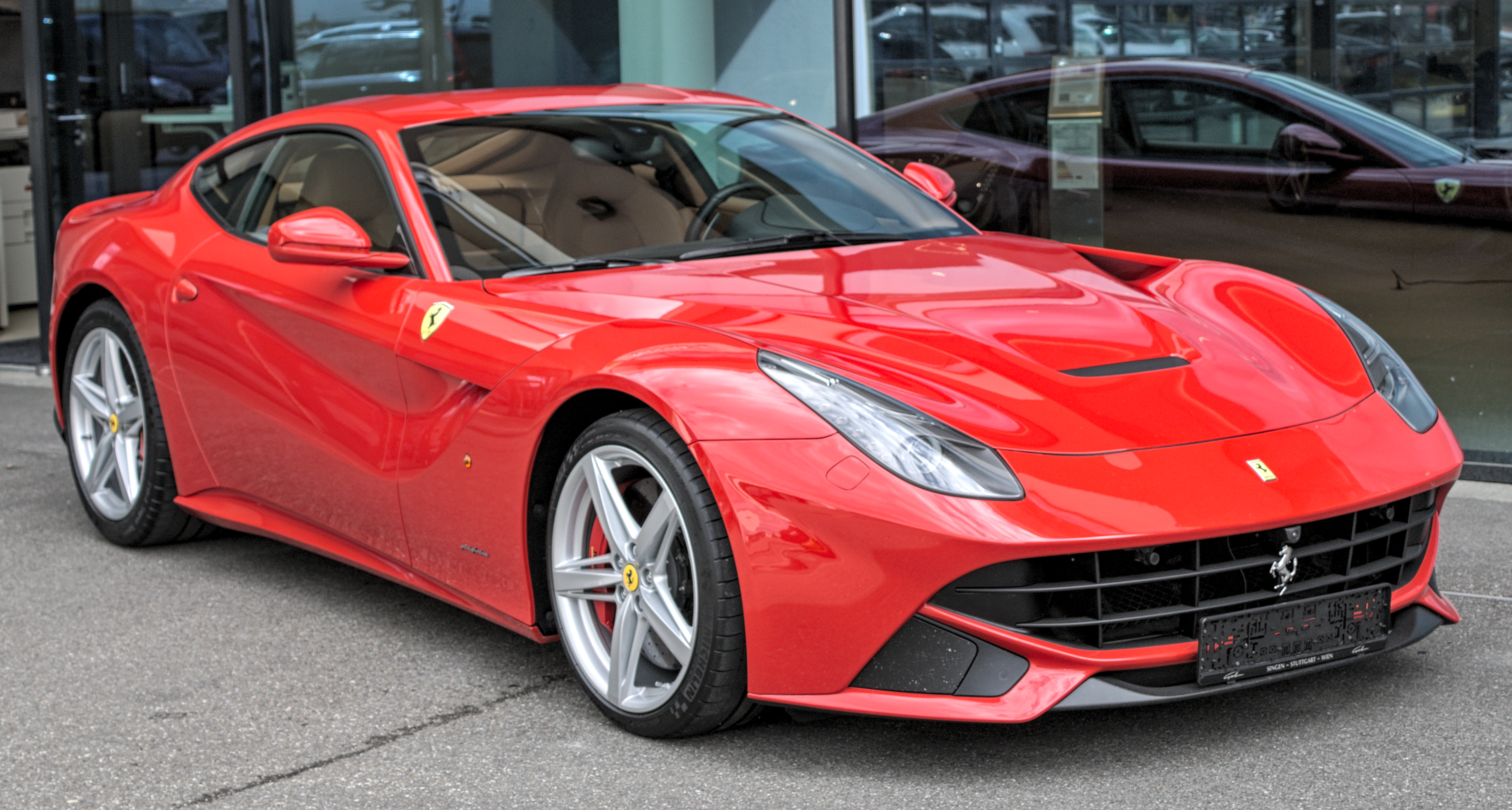 Ferrari_F12berlinetta in Böblingen